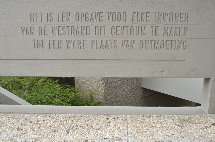 It is the duty of everyone to make this building a place of meeting